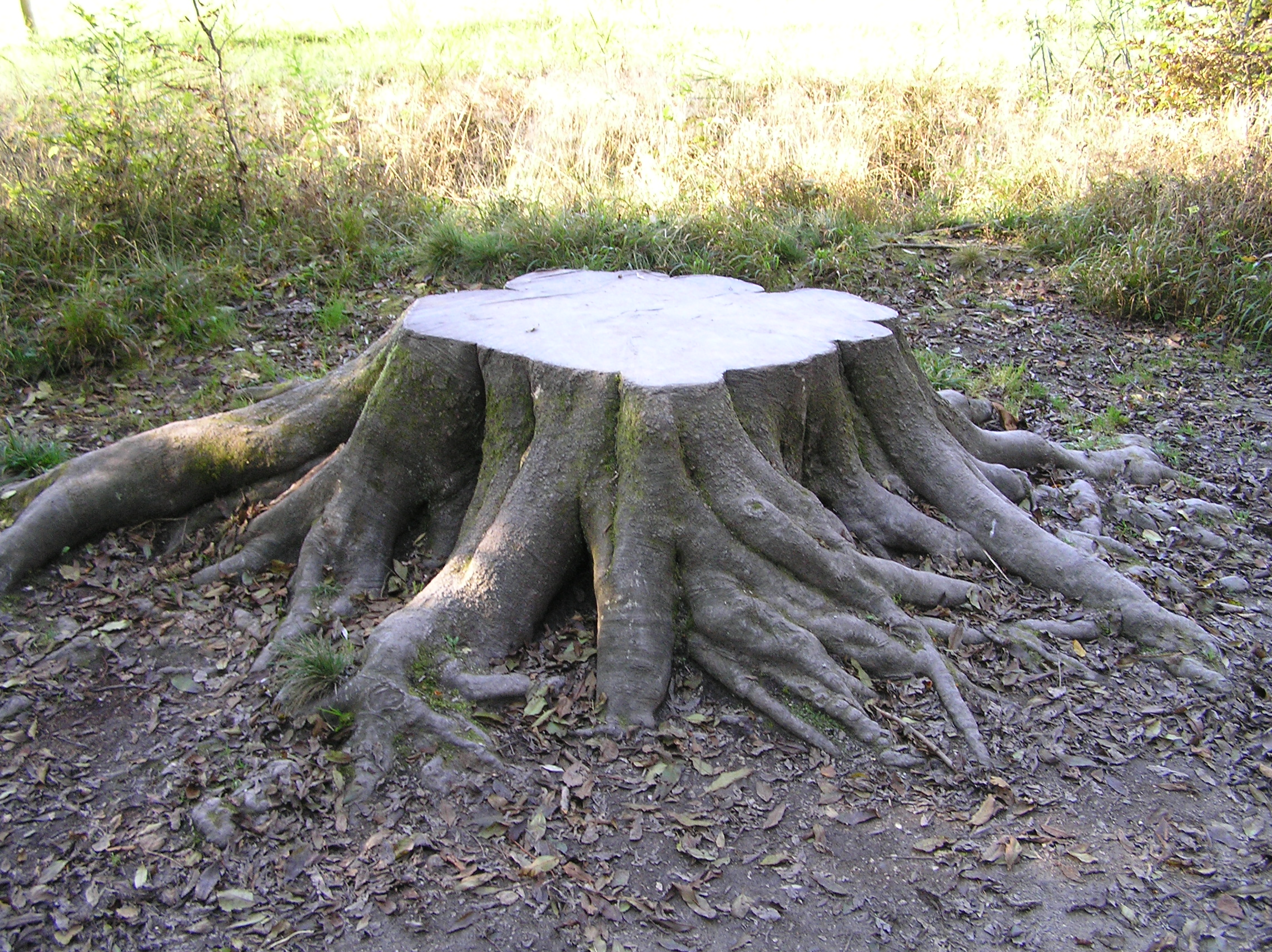 tree stump Author: Uwe Göpfert (User:WikipediaMaster) Camera: Olympus C-765UZ